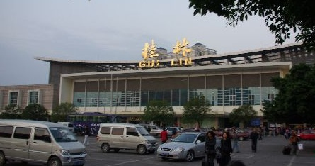 Guilin Railway Station